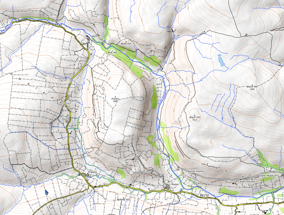 Upper course of River Swale leaving his Dale